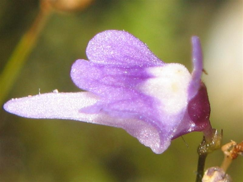 Utricularia minutissima's flower.